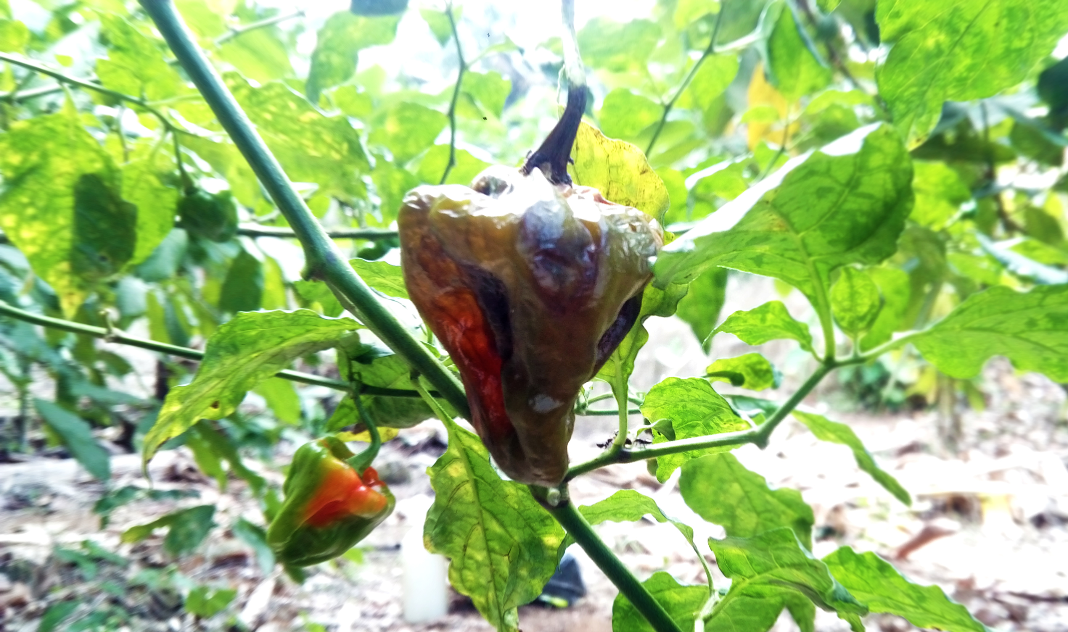 Anthracnose: fruit damage of Organic hot pepper in Tropical Bonakanda Forest in Buea, SWR, CMR